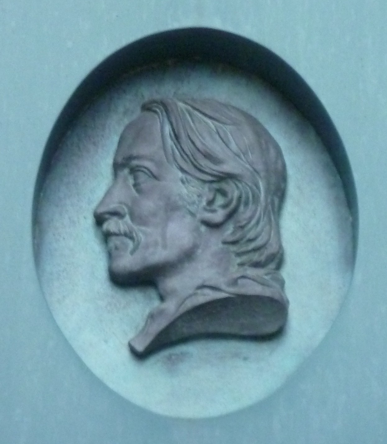 Medallion head of Robert Louis Stevenson outside the Writers' Museum, Edinburgh